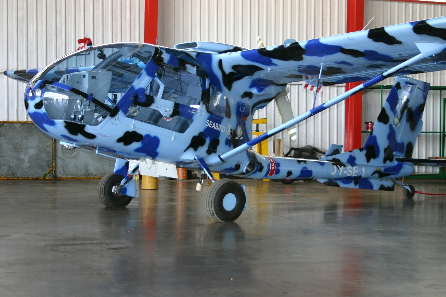 At Lanseria International Airport